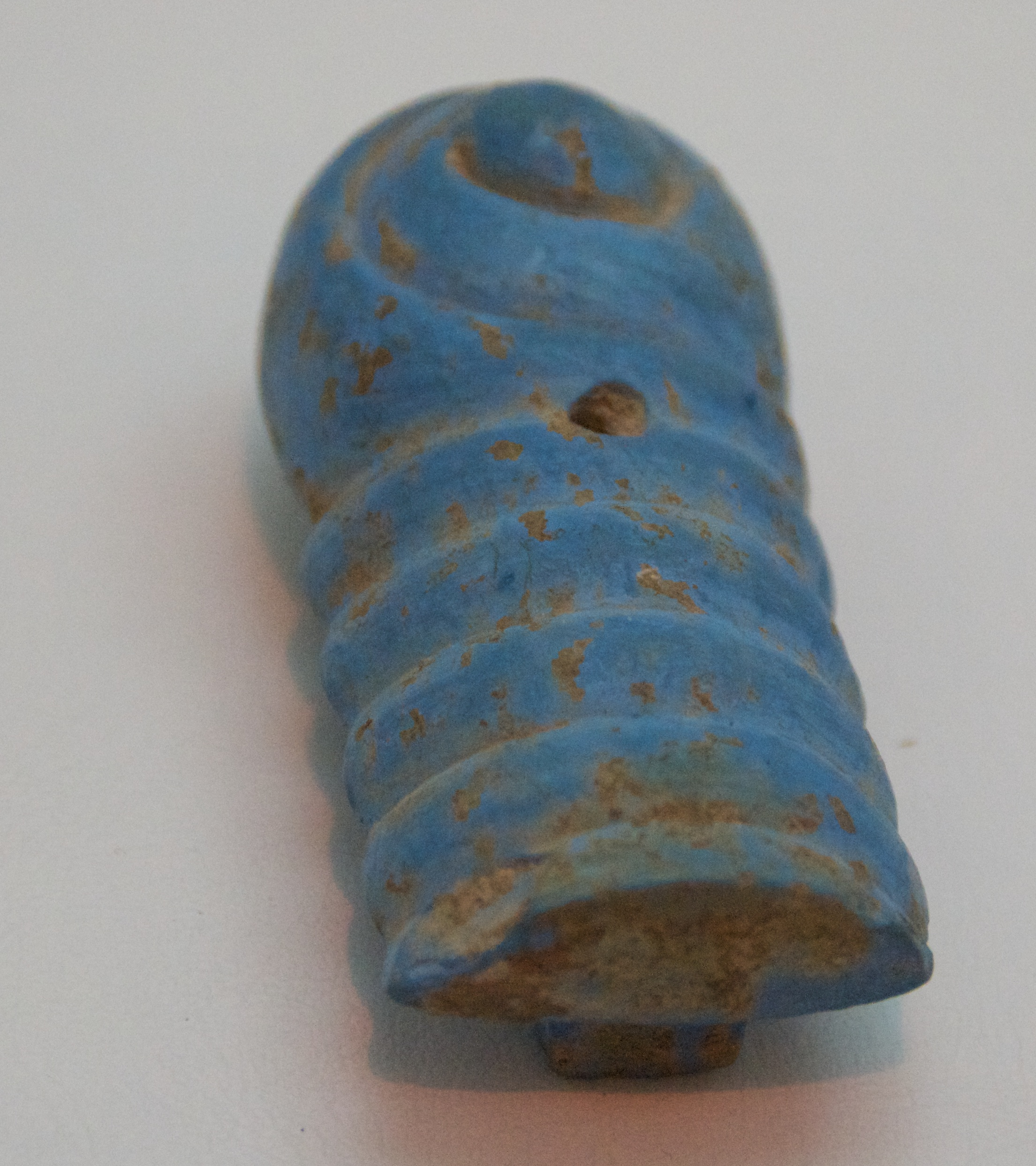 Achaemenid Period (ca. 550 - 330 BCE). In the collection of the museum at Persepolis, Iran.